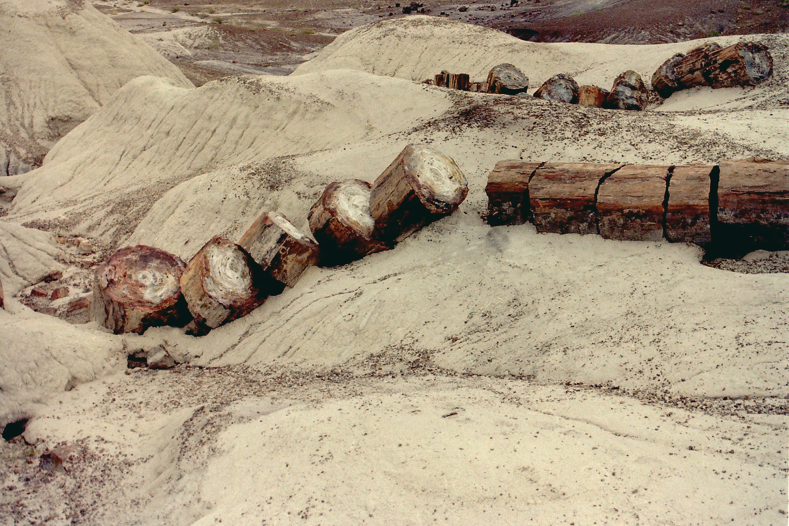 The Petrified Forest National Park is located in northeastern Arizona, United States. View to petrified logs at Giant Logs.